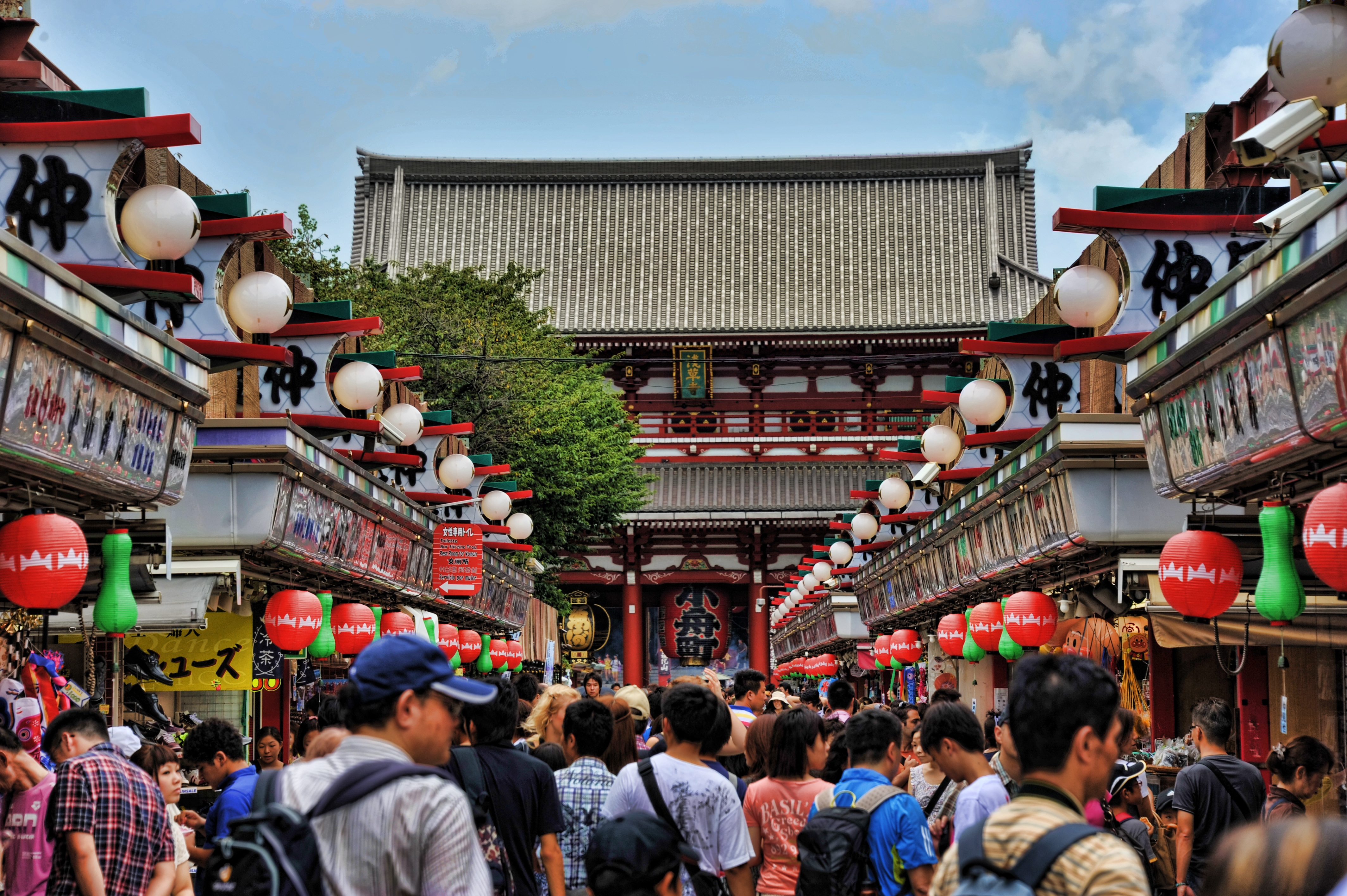 askusa sensoji tokyo japan 2011